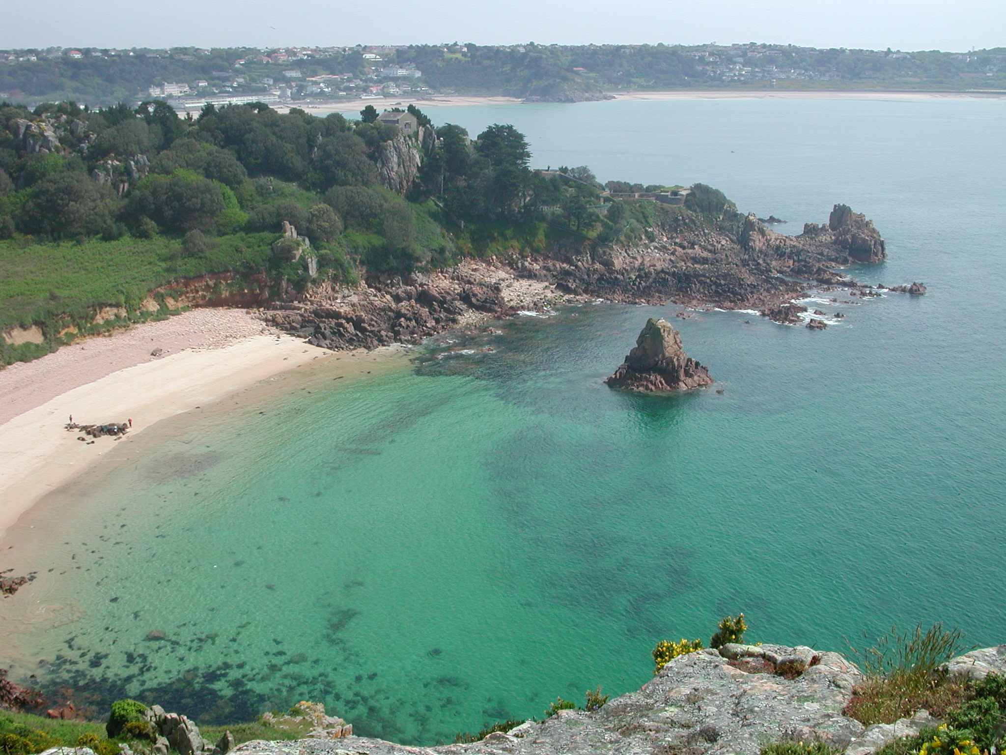 Beauport, St Brelade, Jersey, with St Brelade's Bay and Ouaisné in background